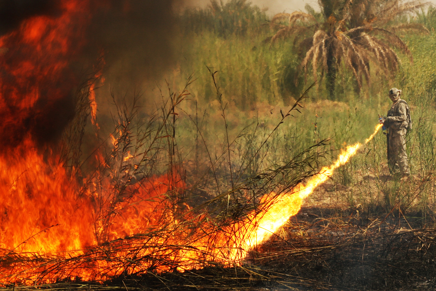 Sgt. Joshua Robbins, native of Dickson, Tenn., serving with the 66th Engineers Company, "Sappers," 2nd Stryker Brigade Combat Team, "Warrior," 25th Infantry Division, Multi-National Division-Baghdad, torches an area with a flame thrower in an effort to deny terrorists concealment, and give coalition forces at Joint Security Station Mushada East a clear line of sight along a road, which lies between Mushada and Tarmiyah in the Tarmiyah Qada. 2nd Stryker Brigade Combat Team, 25th Infantry Division Photo by Sgt. Whitney Houston Date Taken:08.28.2008 Location:TAJI, IQ Related Photos